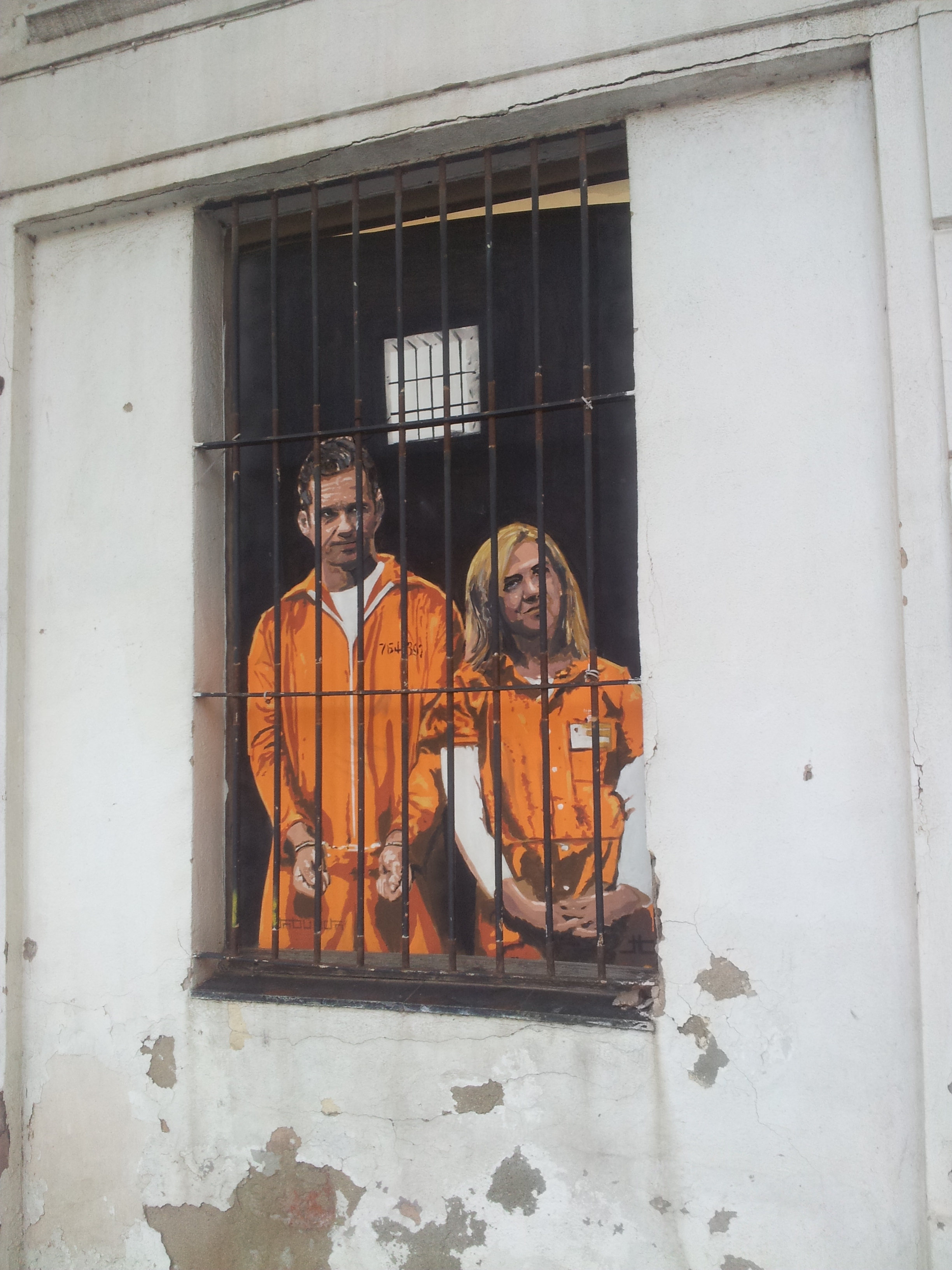 Urdanagarin and Cristina